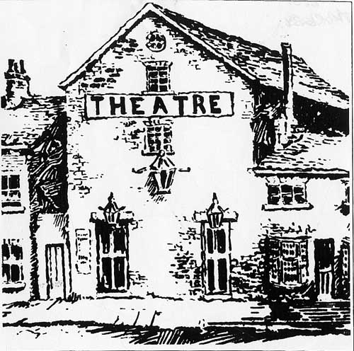 Late 18th century or early 19th century drawing of The Theatre, Leeds, West Yorkshire, England: built 1771, demolished 1867. It was replaced on the same site by the New Theatre Royal, Leeds: built 1867, burned down 1875. The magician Ching Lau Lauro played here in 1834.